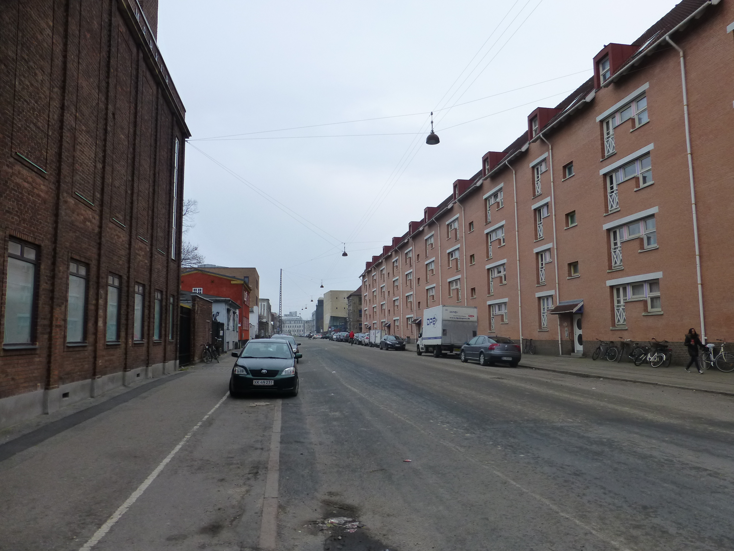 Sigurdsgade is a street in Nørrebro in Copenhagen.